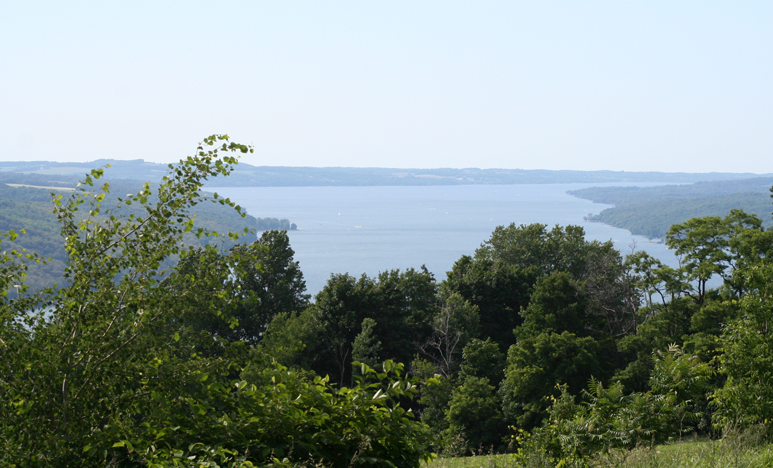 Skaneateles Lake looking north from the east side of the lake. Taken by Catherine Nonenmacher on July 3, 2005.